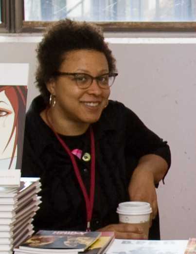 Jemiah Jefferson